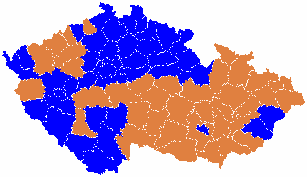 Leading parties of the 2006 Czech legislative election by district